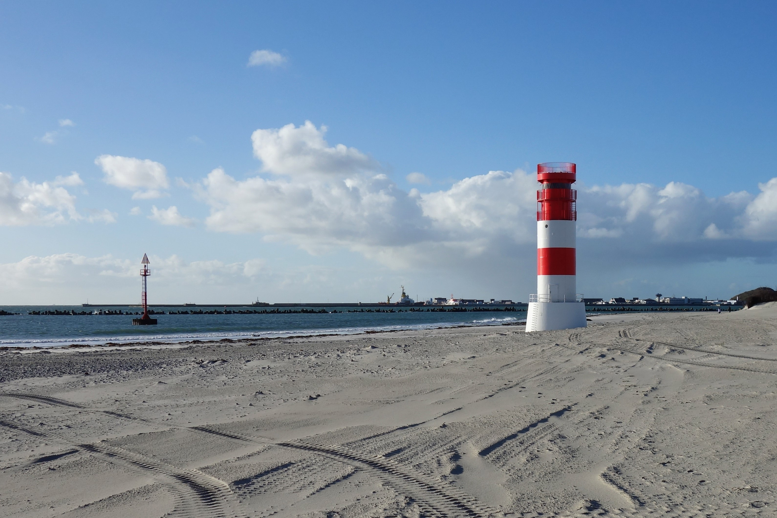 Leading and range rear light Helgoland Düne